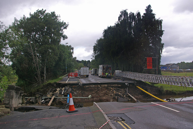 Burway Bridge collapse The bridge, which carried Coronation Avenue, the main access into Ludlow from the north, was washed away by a swollen River Corve on 26 June 2007. By the time this photo was taken, less than a week later, a temporary structure had been erected to carry utilities across the gap.